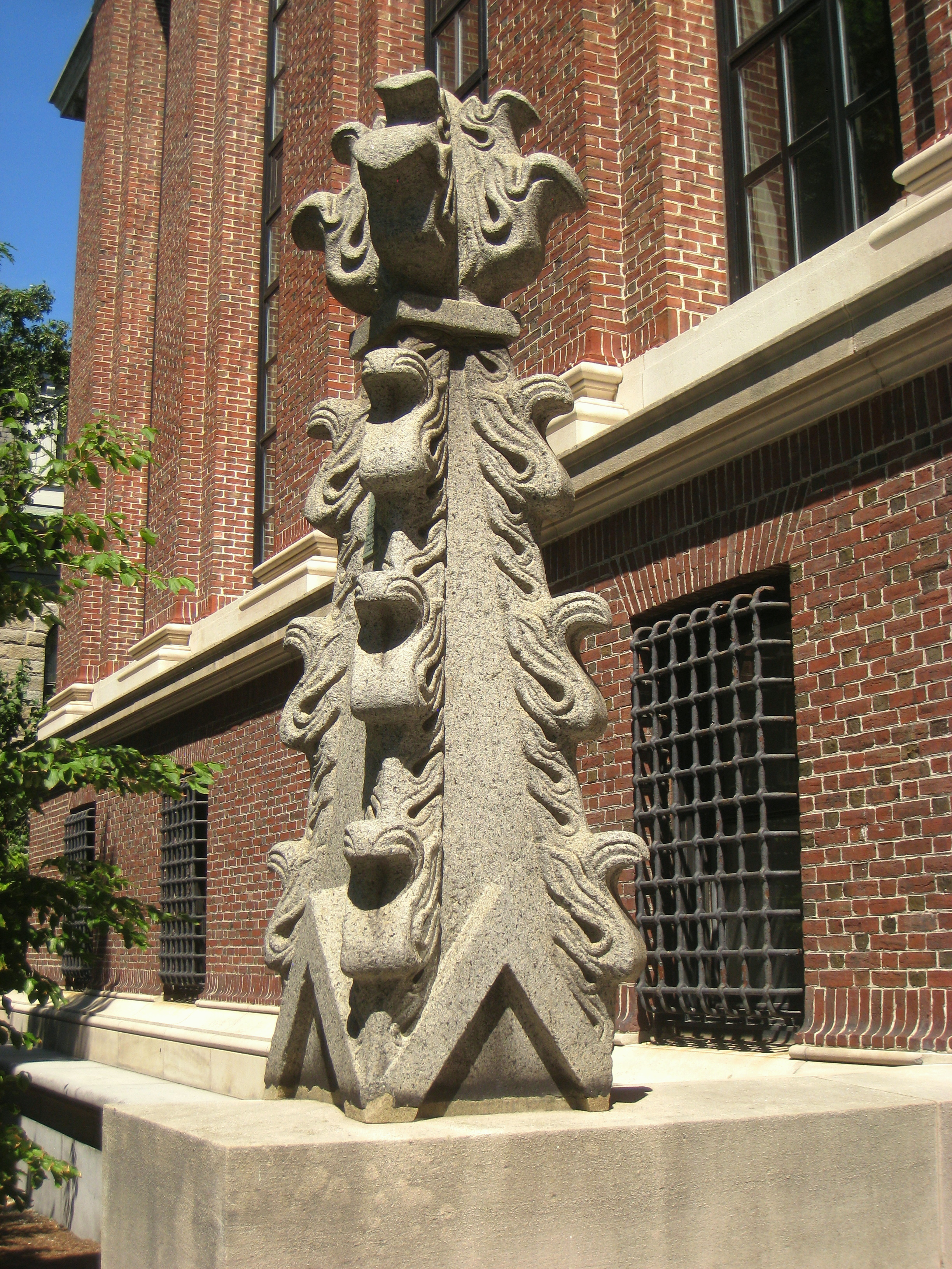 Gore Hall finial, Harvard University, Cambridge, Massachusetts, USA.